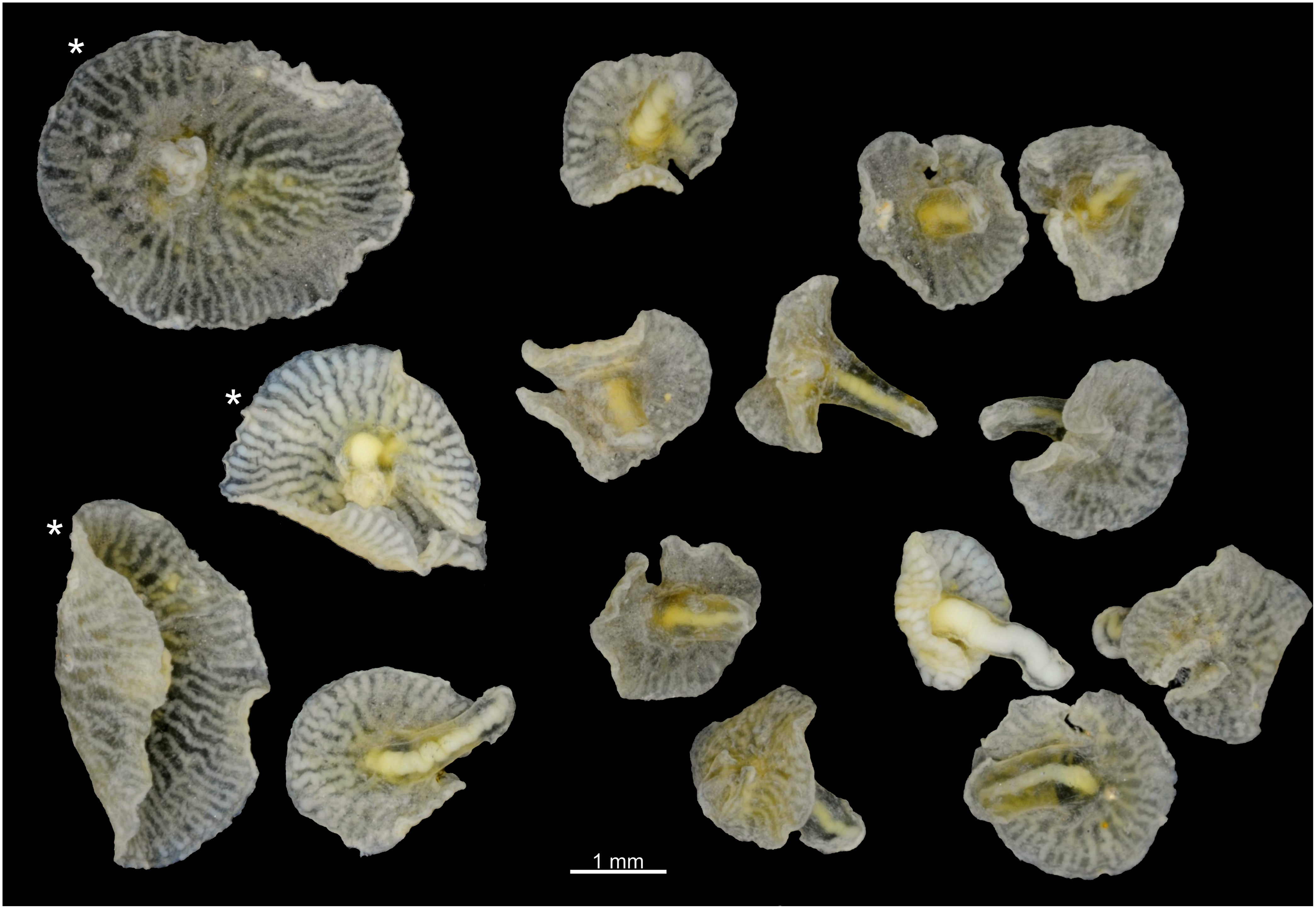 Dendrogramma gen. nov., all 15 paratypes of D. enigmatica and (with *) D. discoides. Photographs taken after shrinkage (see Material and Methods).